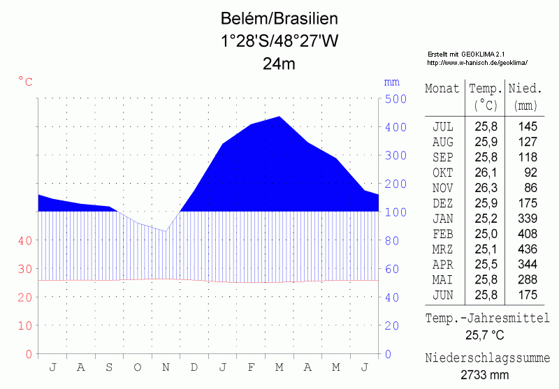 climate chart in the format by Walther and Lieth, metric, °Celsisus and millimeters, made with Geoklima 2.1